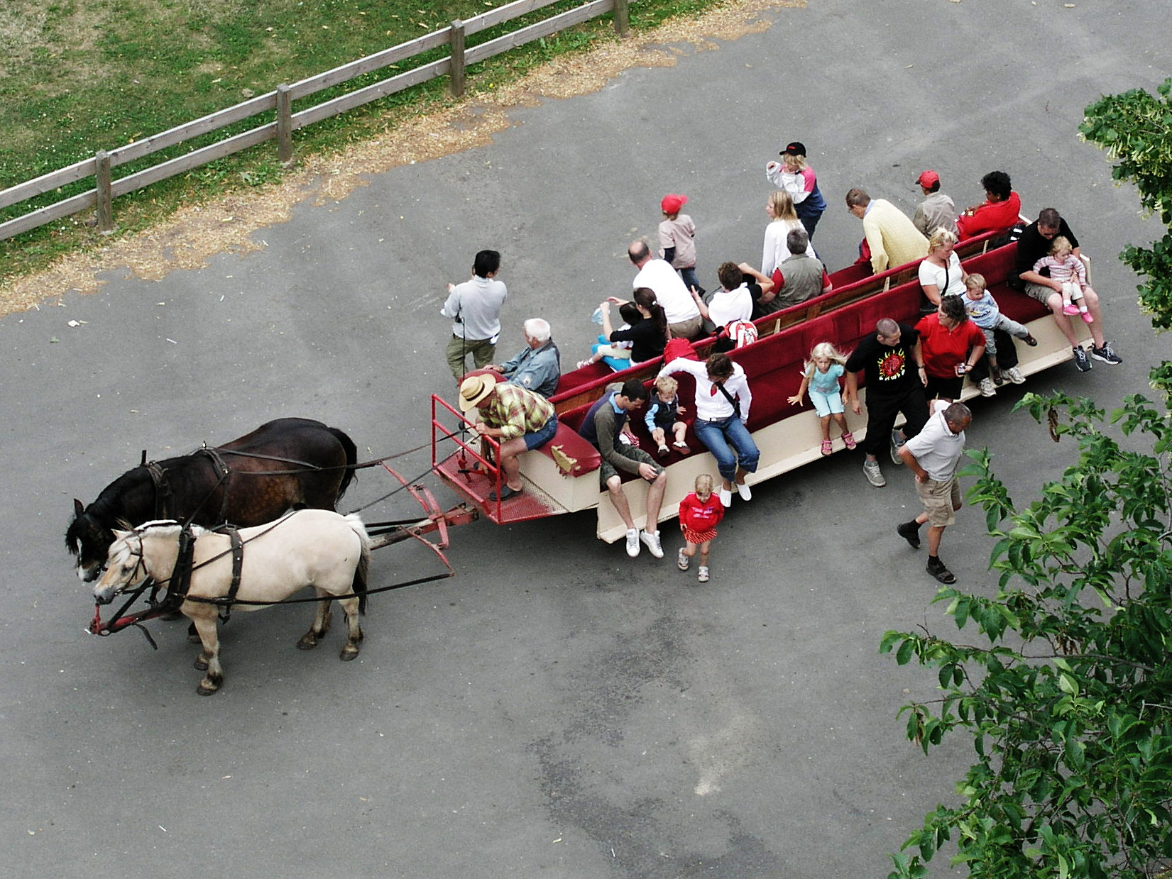 Tourist tour with "Remmalag", a carriage pulled by horses. Stop at Kumlaby kyrka, on the isle of Visingö, foto taken from the church tower. Jönköpings kommun. Sweden.